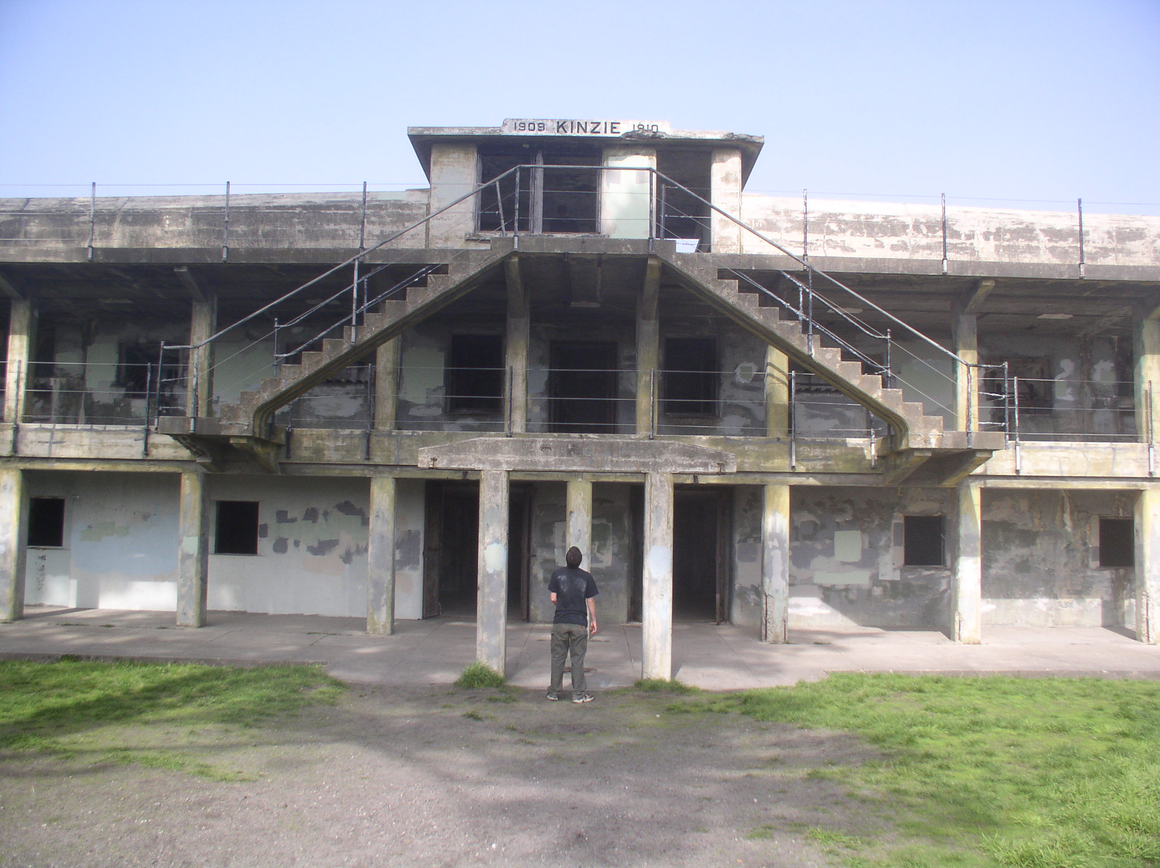 Battery Kinzie, Fort Worden, Port Townsend, Washington